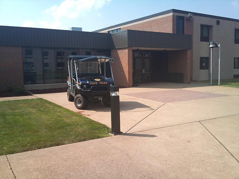 Author: Ramses Coly Date taken: June 1, 2011 Type of camera: Sony Ericsson Xperia 10